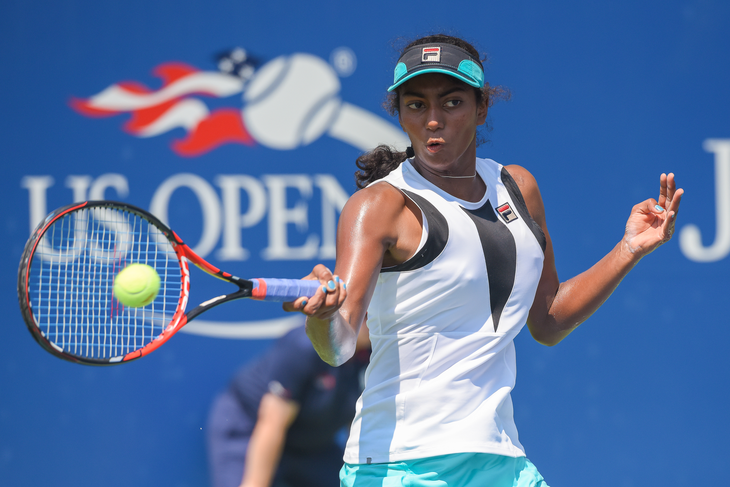 August 25, 2015 Court 6 Flushing, NY